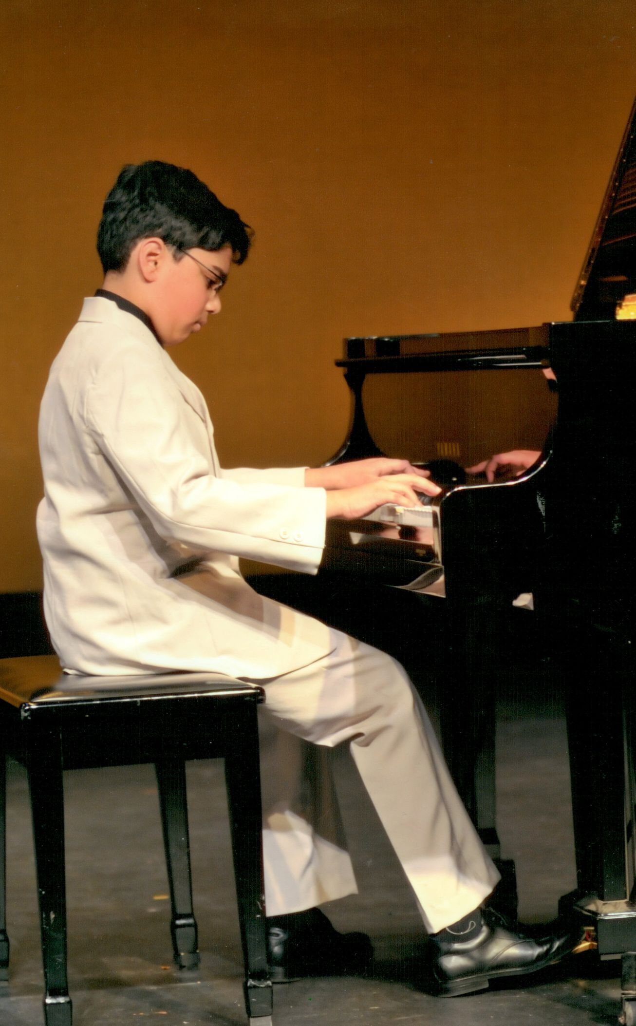 Arjun Ayyangar's 2009 Photo